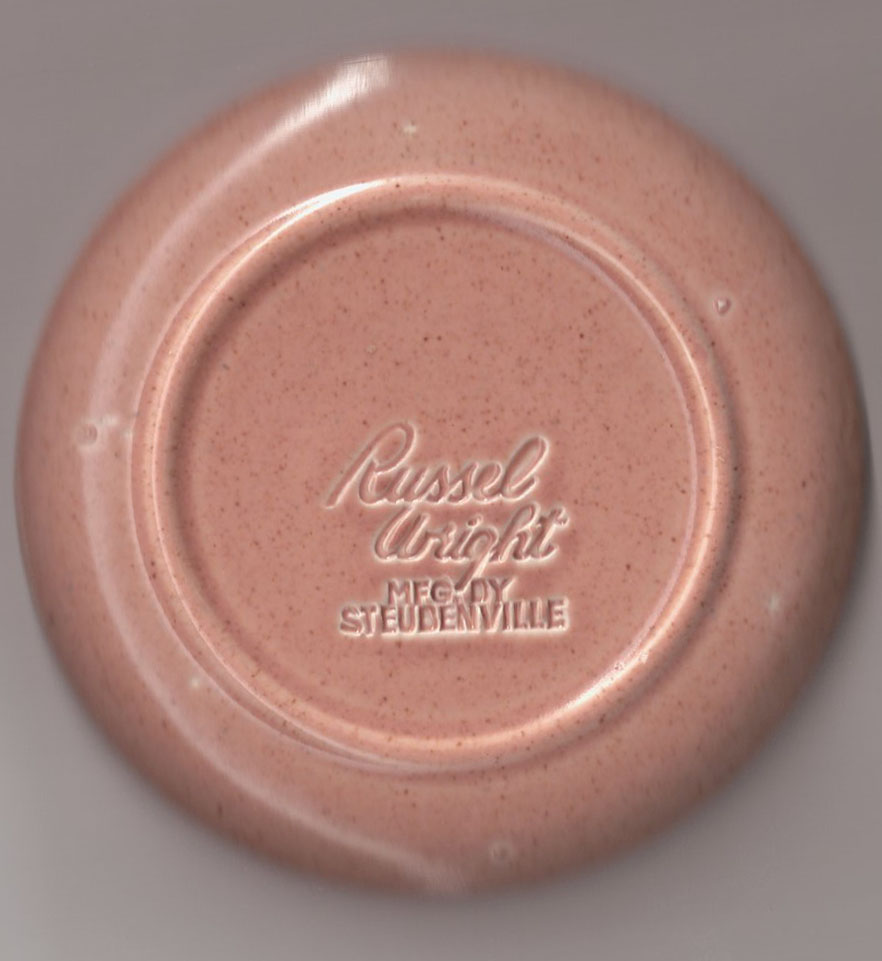 Russel's trademarked signature appeared on over 250 million pieces of American Modern dinnerware between 1939 and 1959. Shown in Coral. Summary Russel's trademarked signature appeared on over 250 million pieces of American Modern dinnerware between 1939 and 1959. Shown in Coral.